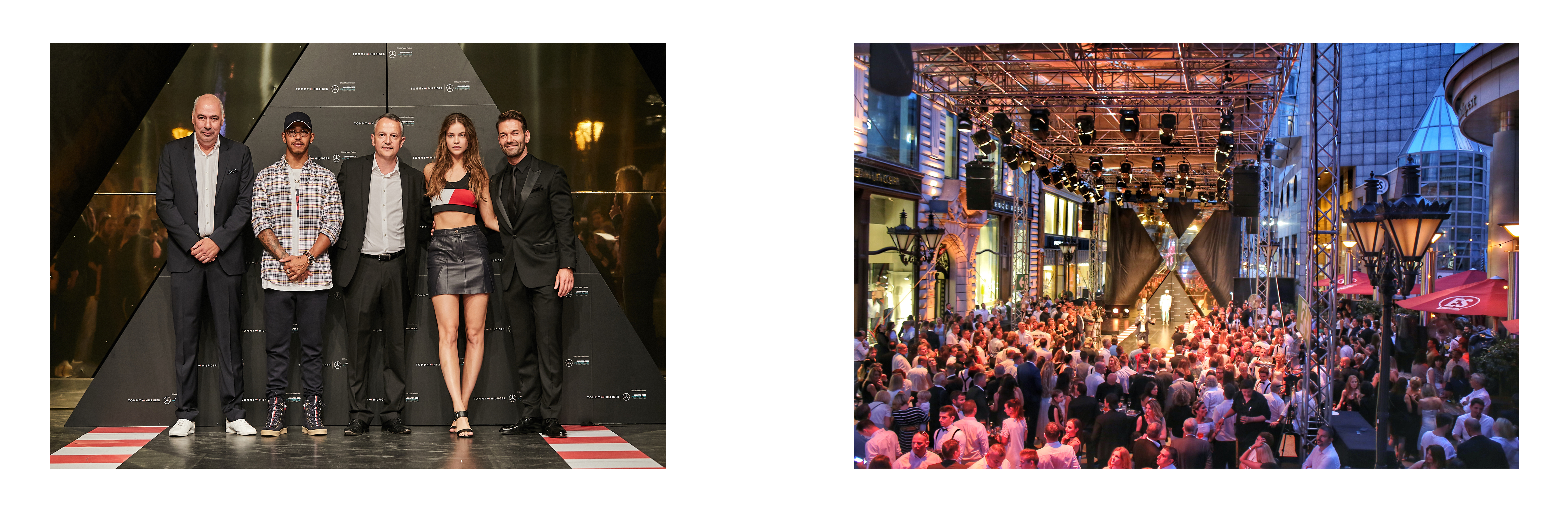 Fashion Street X-Party